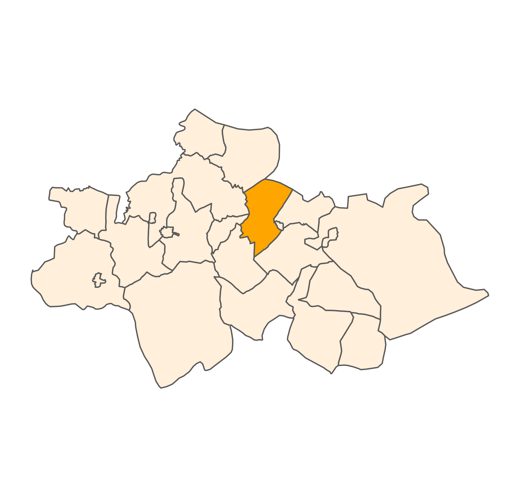 Commune (Orange), Sefrou Province (Antique White)